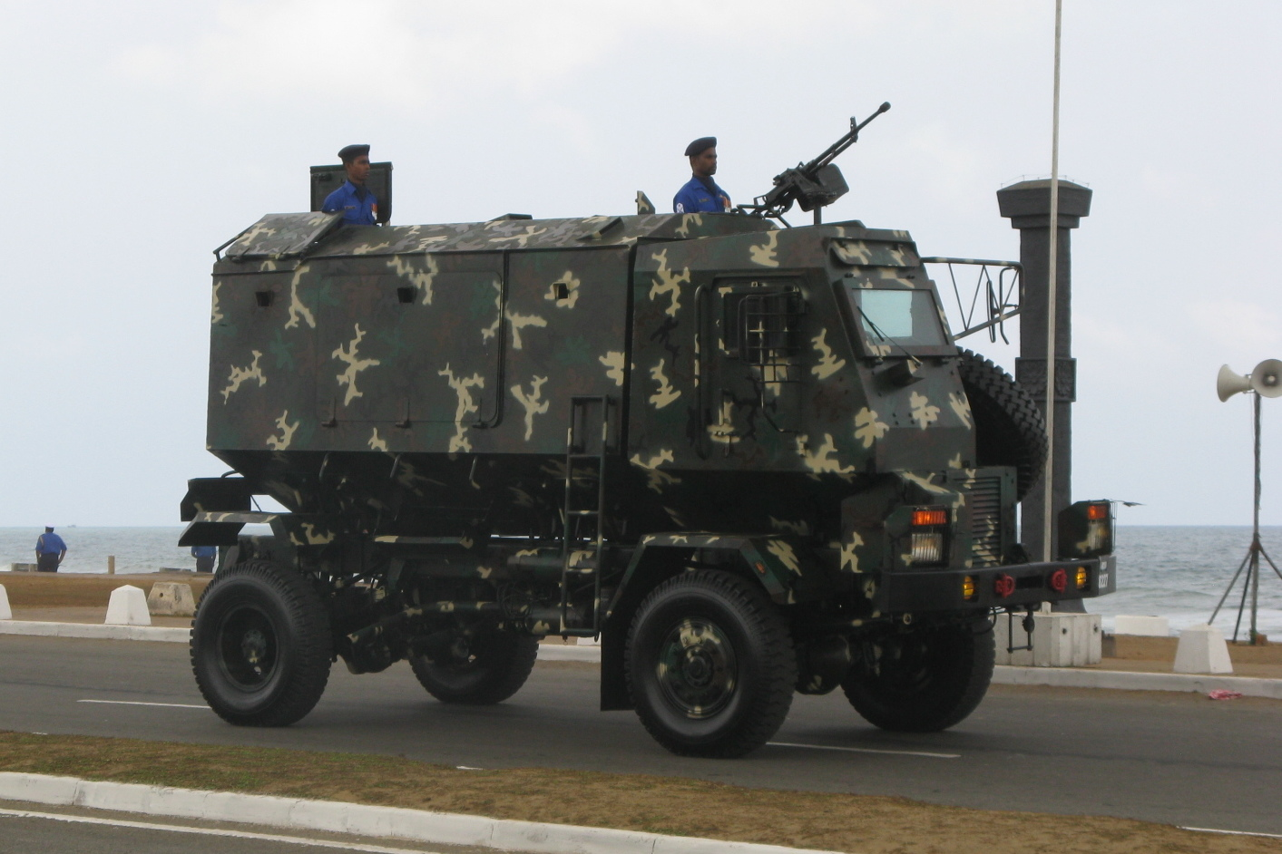 Unibuffel Armored Personnel Carrier - Sri Lanka Army